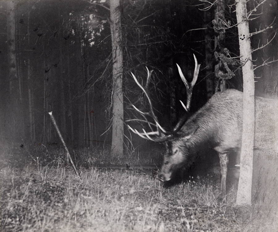 A bull elk catches a camera string in his antlers, triggering a flash. Yellowstone National Park, Wyoming, July 1913.Photograph by George Shiras, National Geographic